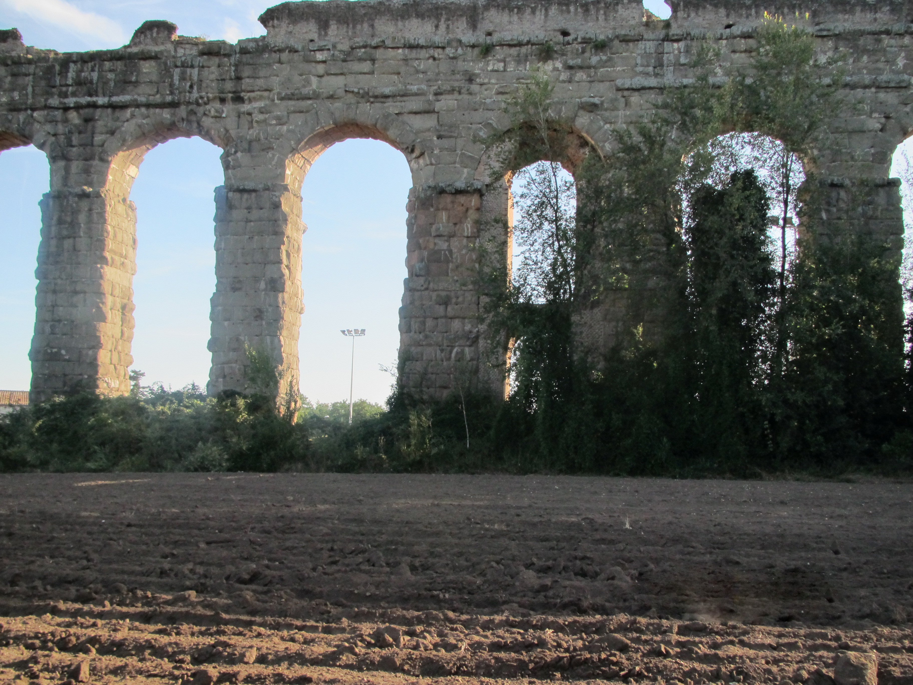 Parco degli Acquedotti